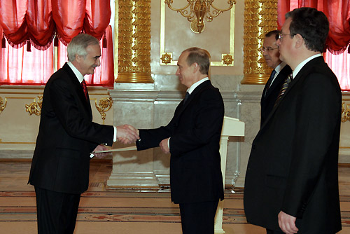 GRAND KREMLIN PALACE, MOSCOW. Letter of credential is presented by the Ambassador of the Republic of Azerbaijan, Polad Byulbyul Ogly.